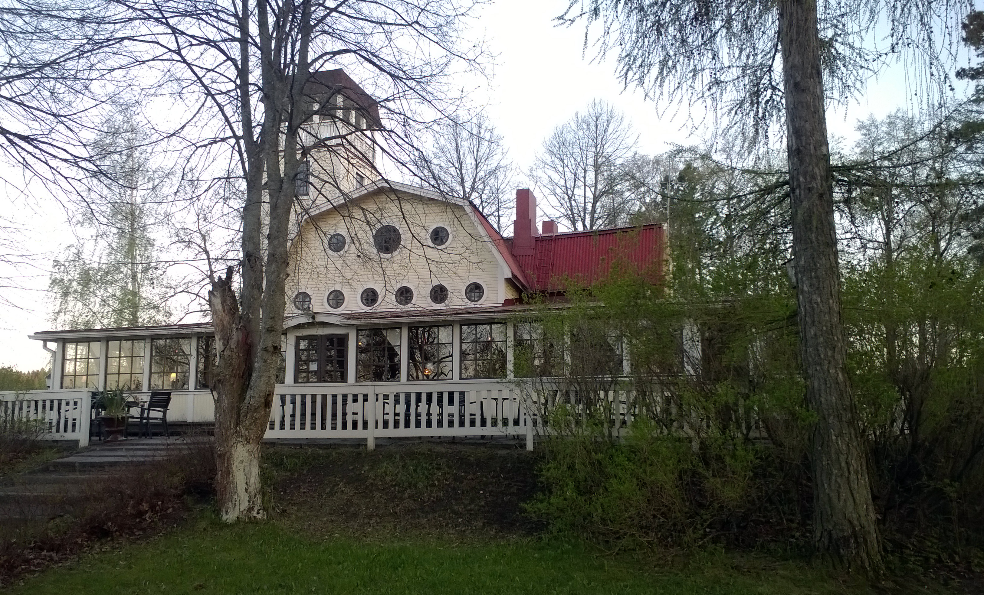 Pavilion in Myllysaari-island in Lahti, Finland. The building built in 1910 and it was designed by architect Uno Alanco.